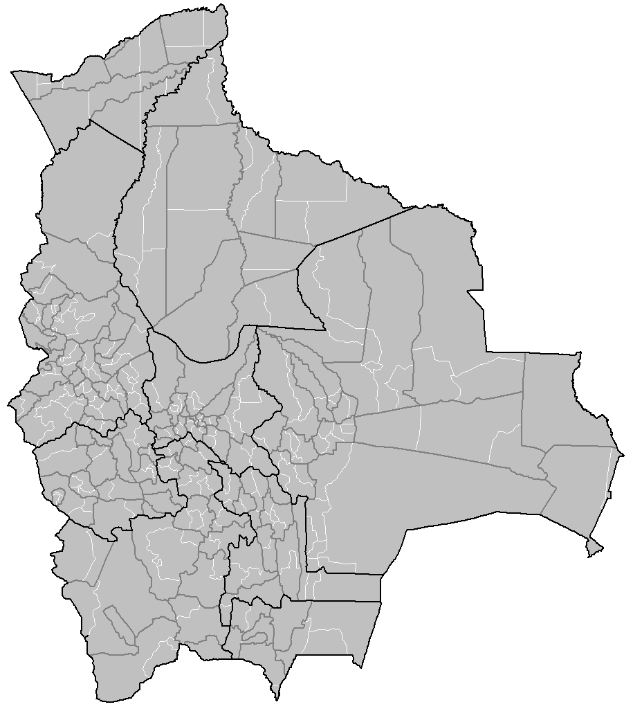 Map of the municipalities of Bolivia. Created by Rarelibra 15:30, 23 January 2008 (UTC) for public domain use, using MapInfo Professionsl v8.5 and various mapping resources.